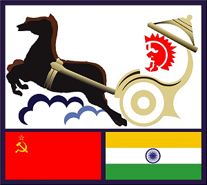 Soyuz T 11 patch